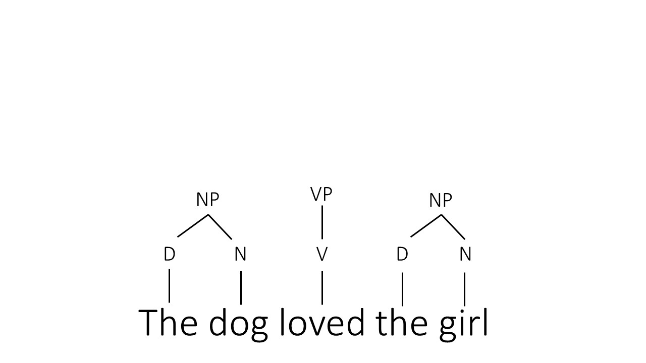 A diagram which demonstrates how phrase structure rules take syntactic categories and create phrases